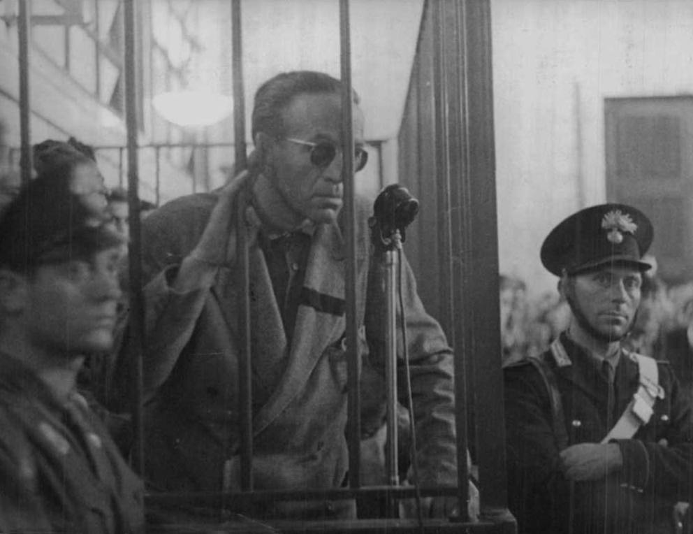 Guglielmo Blasi, member of Roman GAP and later member of the Banda Koch, a fascist militia, during his trial in Milan